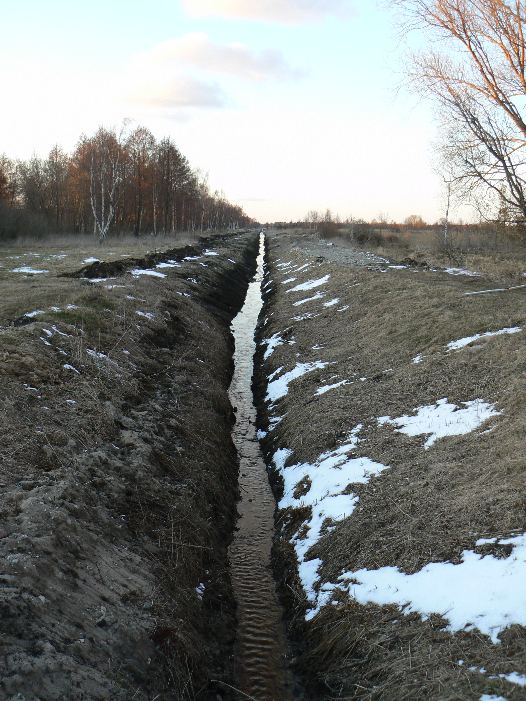 Upper part of Ošupis named Vanagupė. In Lithuania